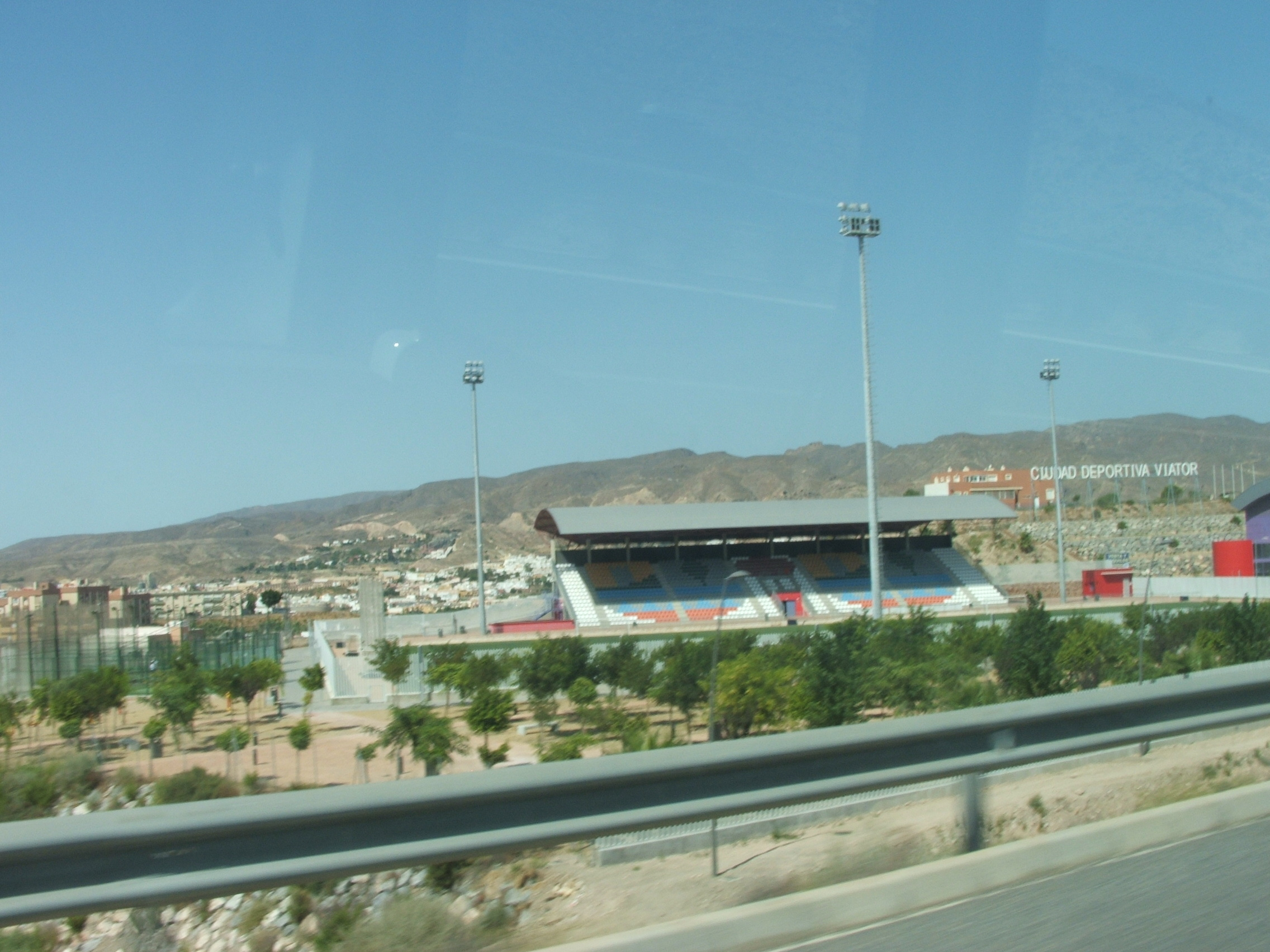 Viator's stadium, in Almería (Spain).